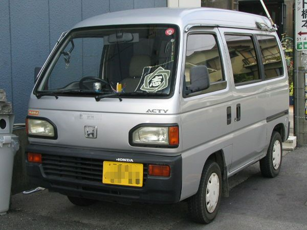 Honda Acty Ian Finnesey 2005